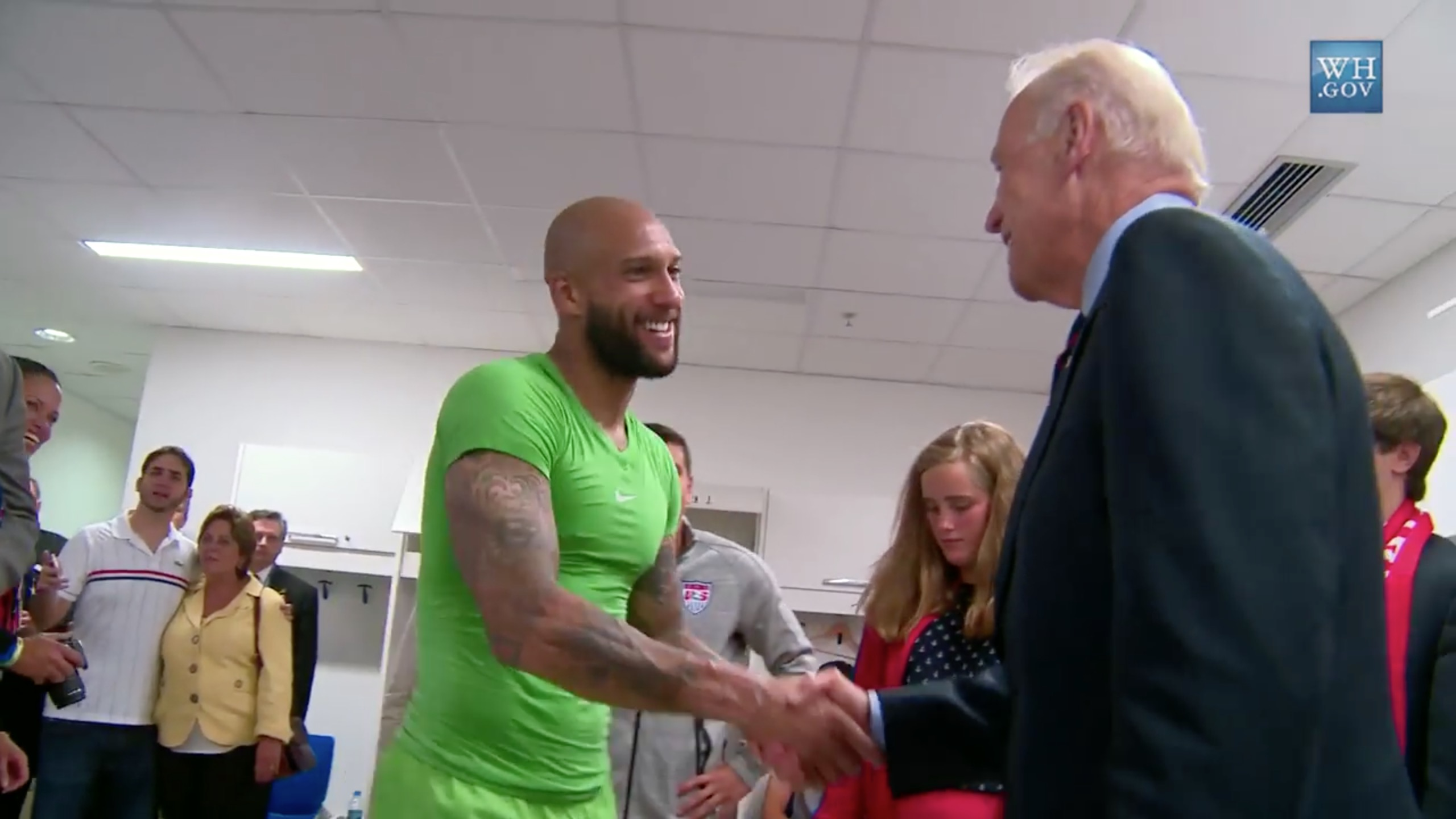 Vice President Joe Biden greets goalkeeper Tim Howard following the U.S. National Team's 2-1 win over Ghana in the World Cup